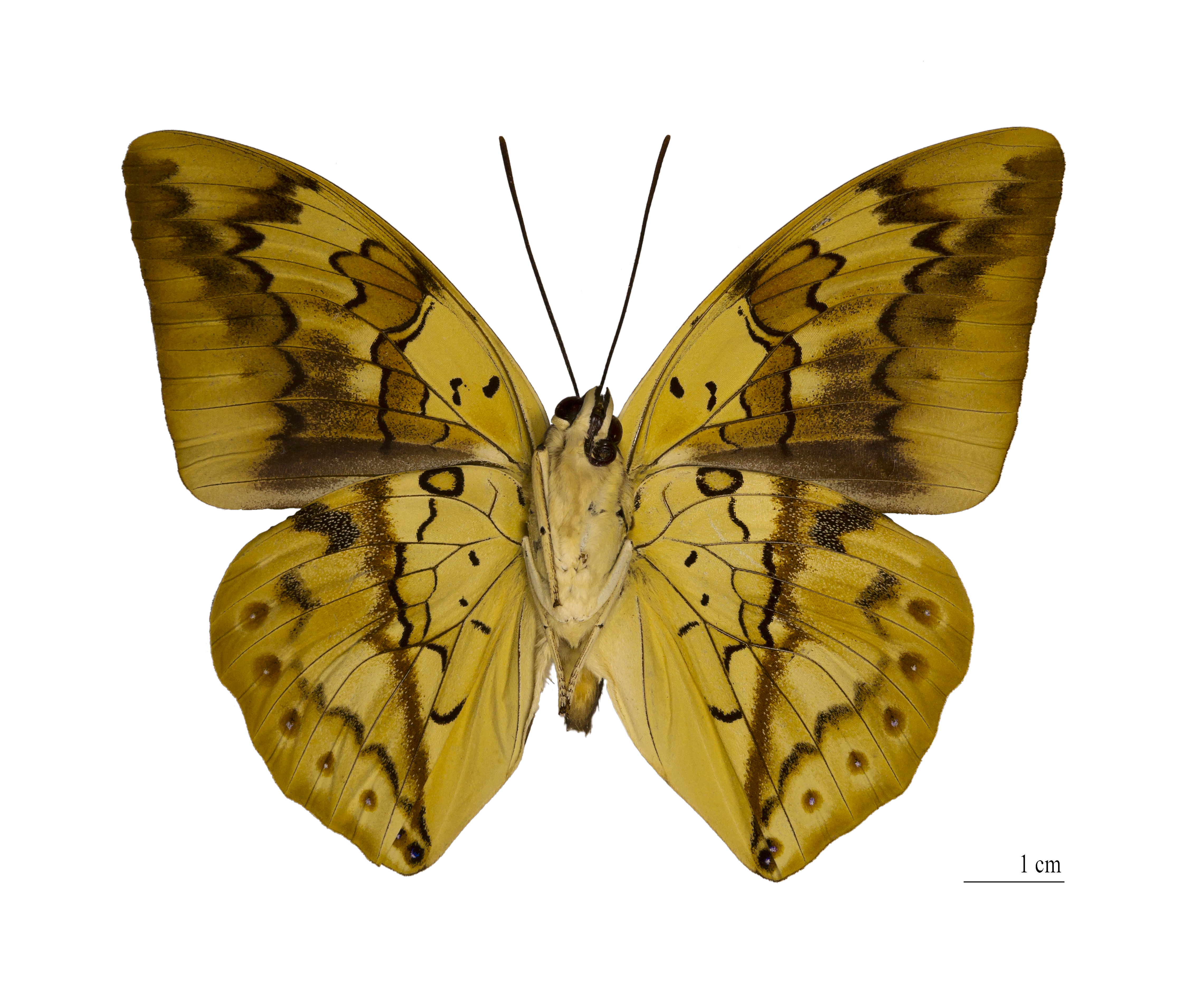 Male specimen - Ventral side Locality: Obidos, Pará, Brasil